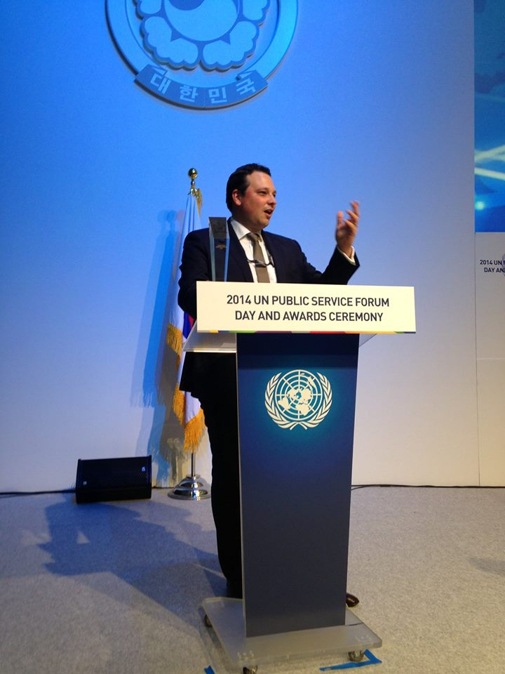 UNPSA Award